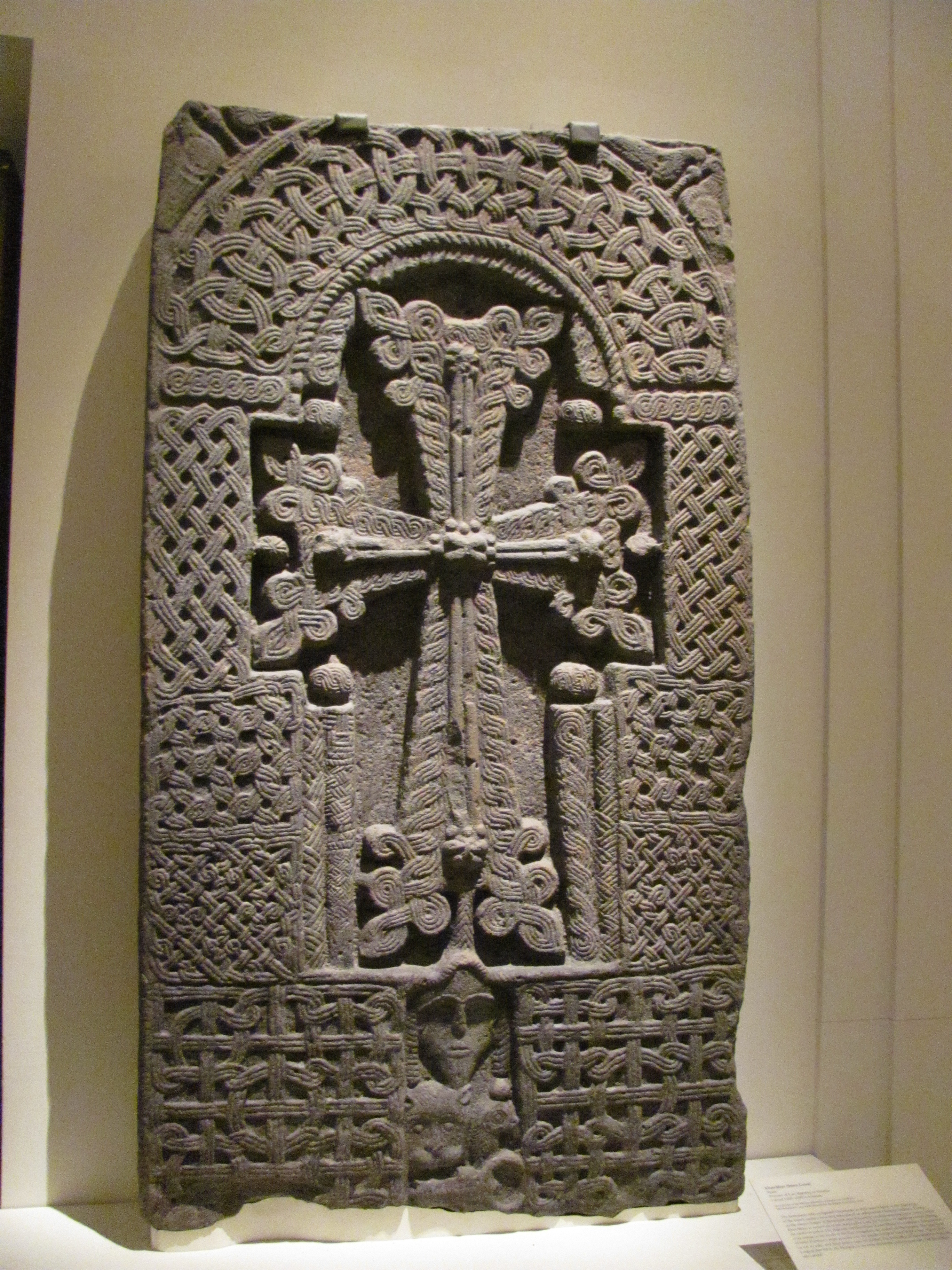 Khatchkar. Basalt. Metropolitan Museum of Art, NYC, {4C96EF57-43FE-4289-BBF1-22D05A8B07EF}. Carved 1100-1200, province of Lori (Armenia).